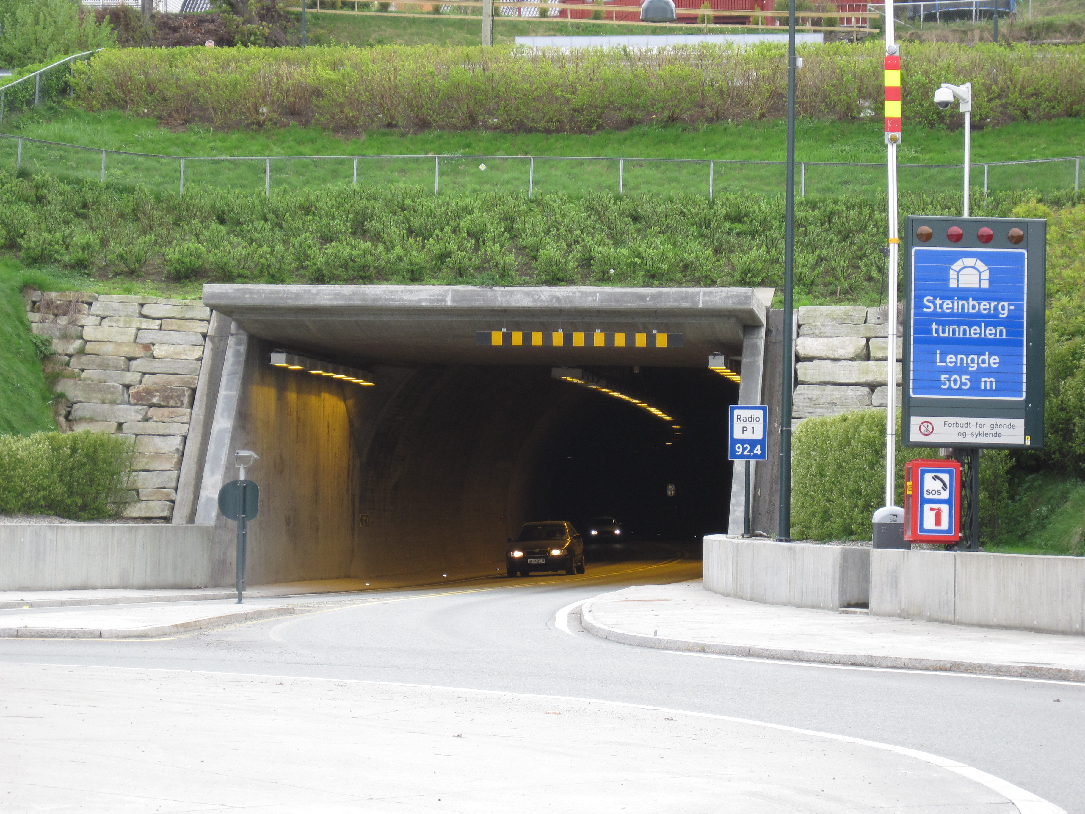 Steinberget tunnel seen from Ilsvika.